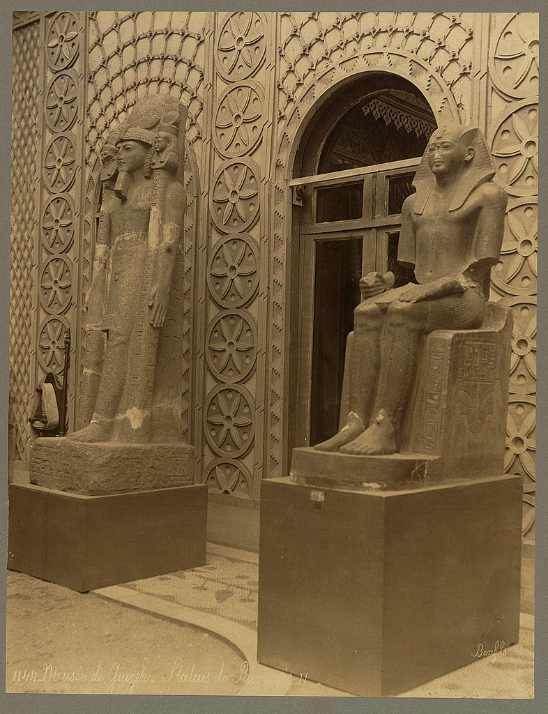 Title: Musée de Guizeh. Statues de Ramessés II / Bonfils. Abstract/medium: 1 photographic print: albumen.